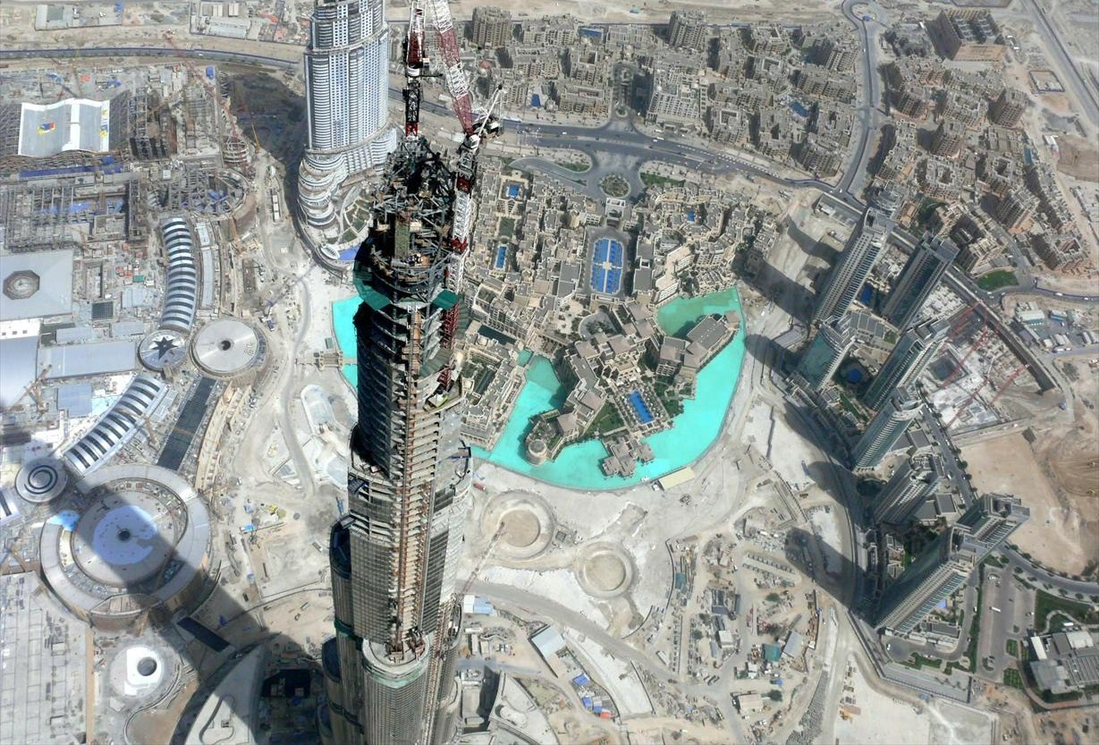 This is a photo showing the construction of the Burj Khalifa, located in Dubai, United Arab Emirates, on 8 May 2008. Seen on the ground (from left to right) are the Dubai Mall, The Address Downtown Burj Dubai, the Old Town and The Residences. This photo was taken from a helicopter ride courtesy of Nakheel.